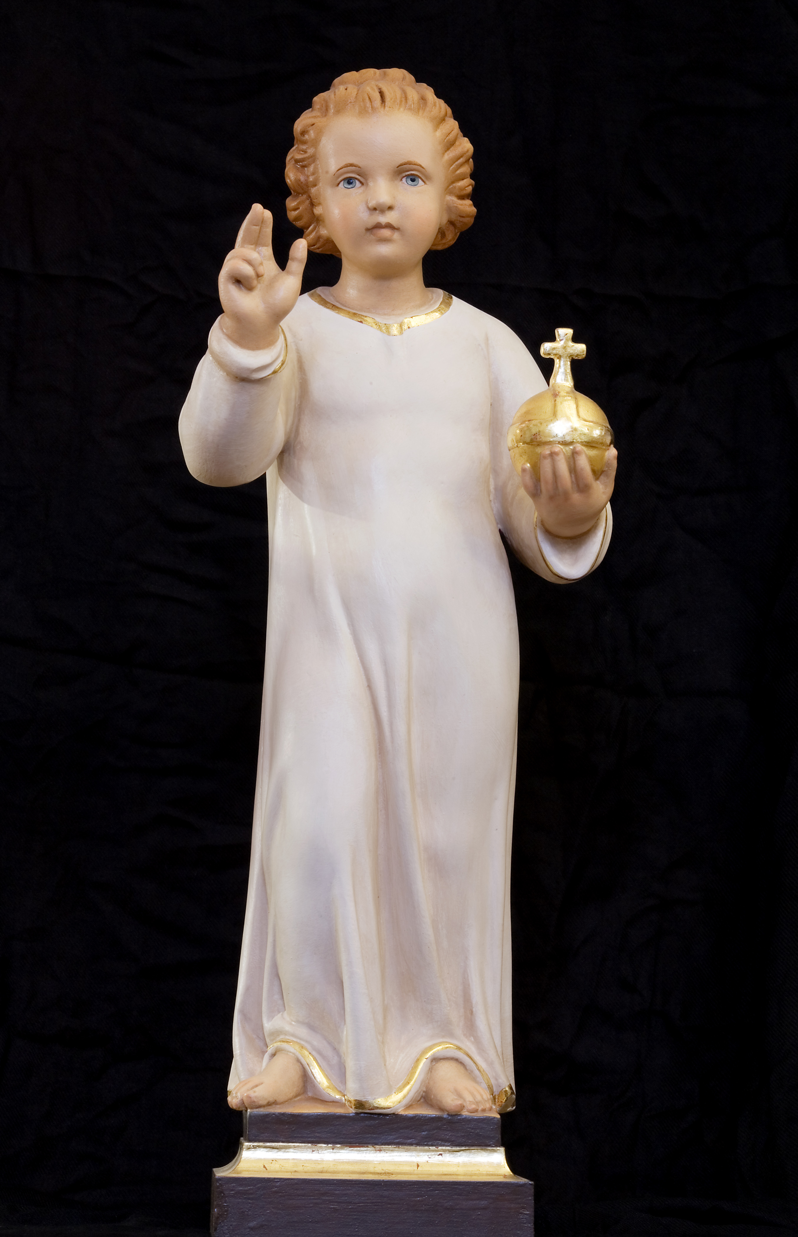 Infant jesus of prague- Das Prager Jesuskind- El niño jesus de Praga, Prague